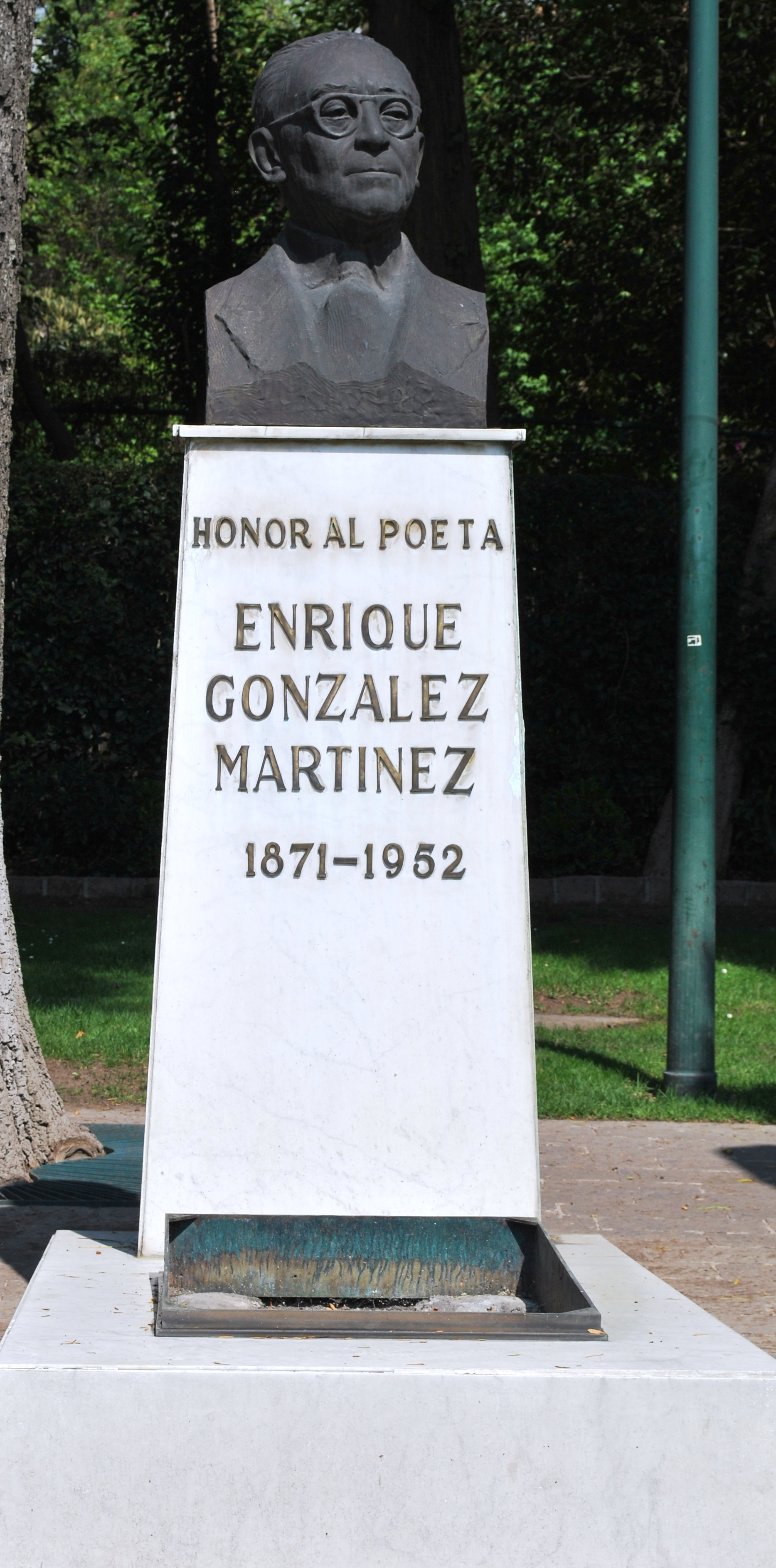 Tomb of poet Enrique Gonzalez Martinez in the Panteon Civil de Dolores in Mexico City